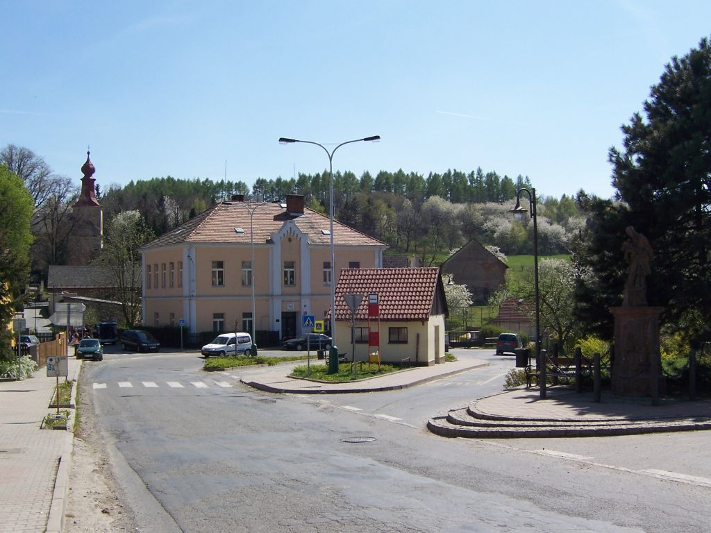 Tehov, village square